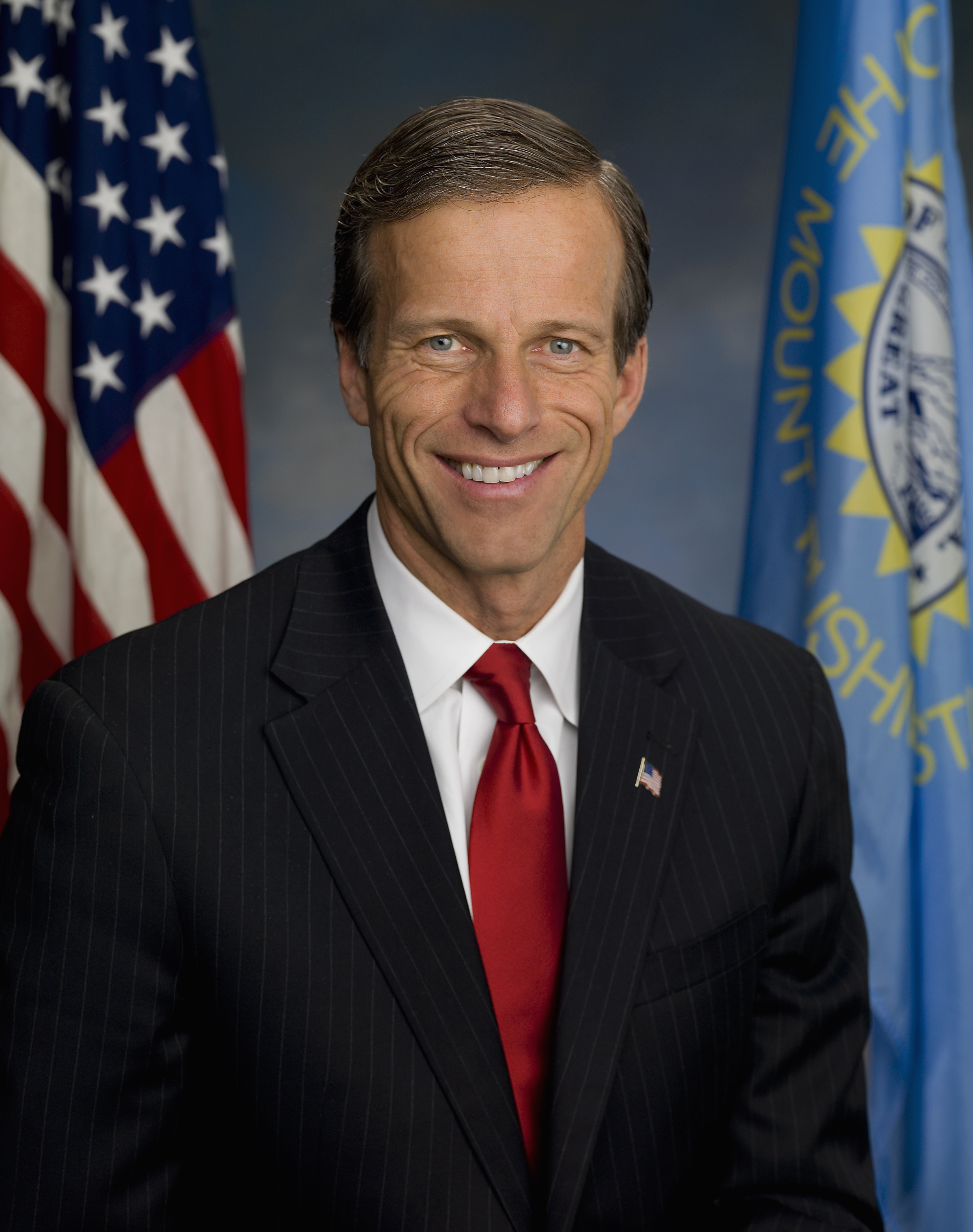 Official portrait of United States Senator John Thune (R-SD).